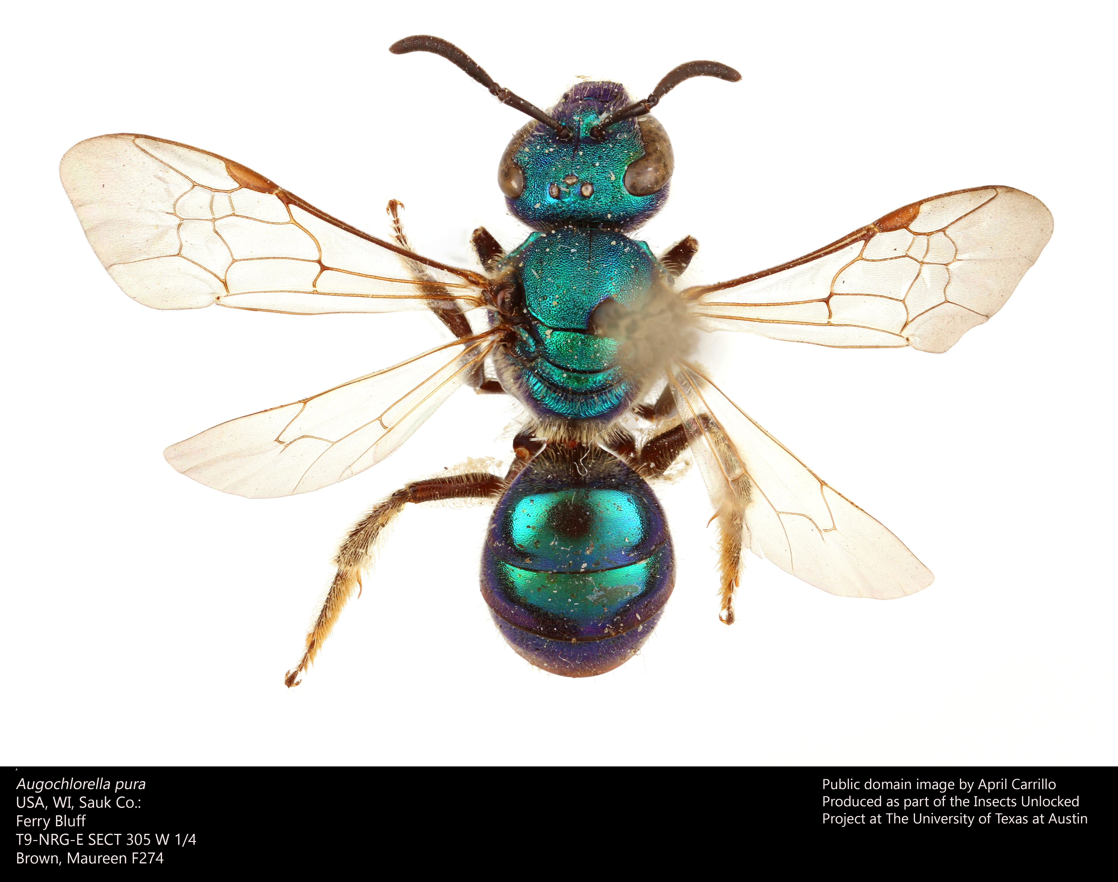 Augochlorella pura This image was created as part of the Insects Unlocked project at the University of Texas at Austin. Based in the UT insect collection at Brackenridge Field Laboratory, part of the Department of Integrative Biology. Do not crop: This image is used on one or more sister projects, where its entire contents are wanted. If you crop it, please save the new image separately, and do not overwrite this one.